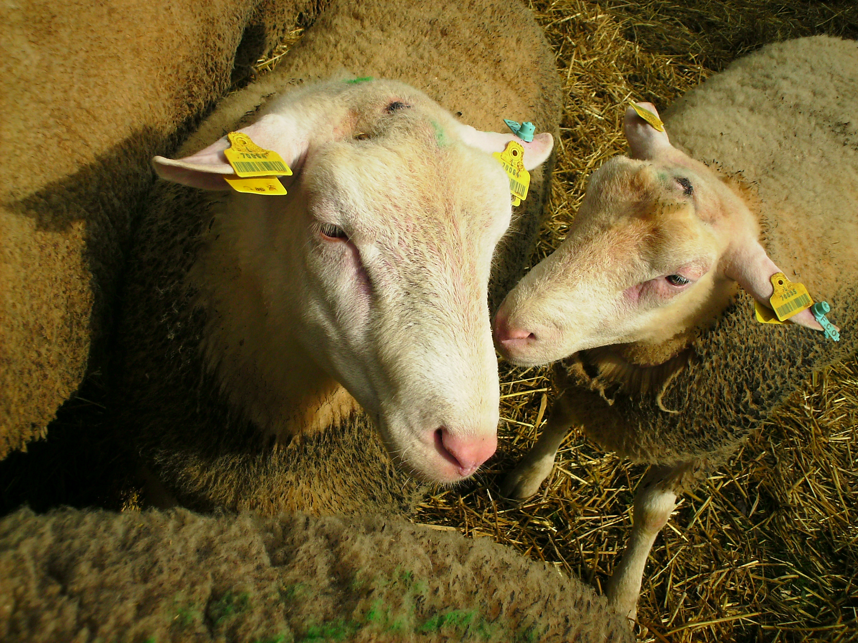 Sheep, "Berrichon du Cher" french race